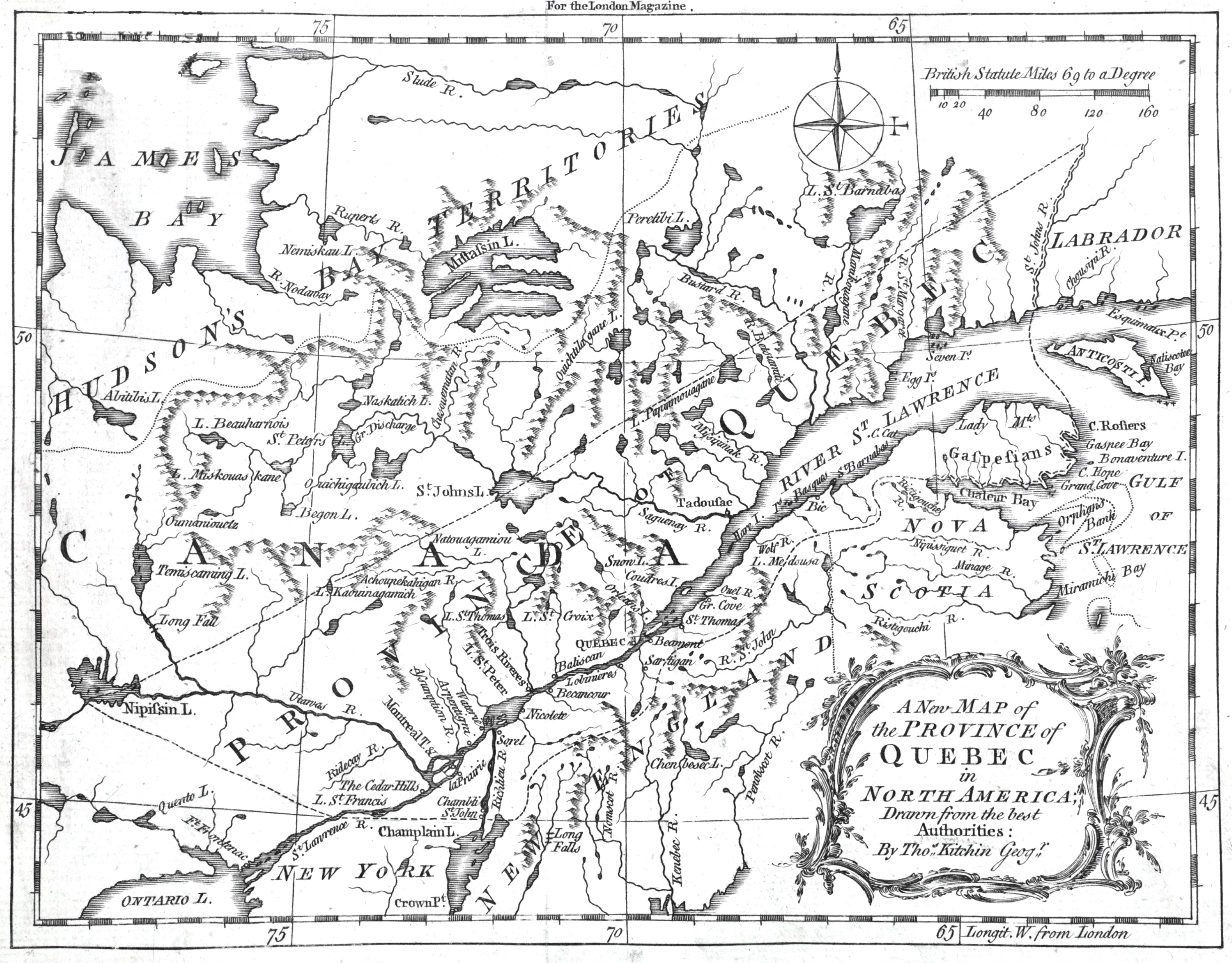 A New map of the Province of Québec in North America drawn from the best authorities